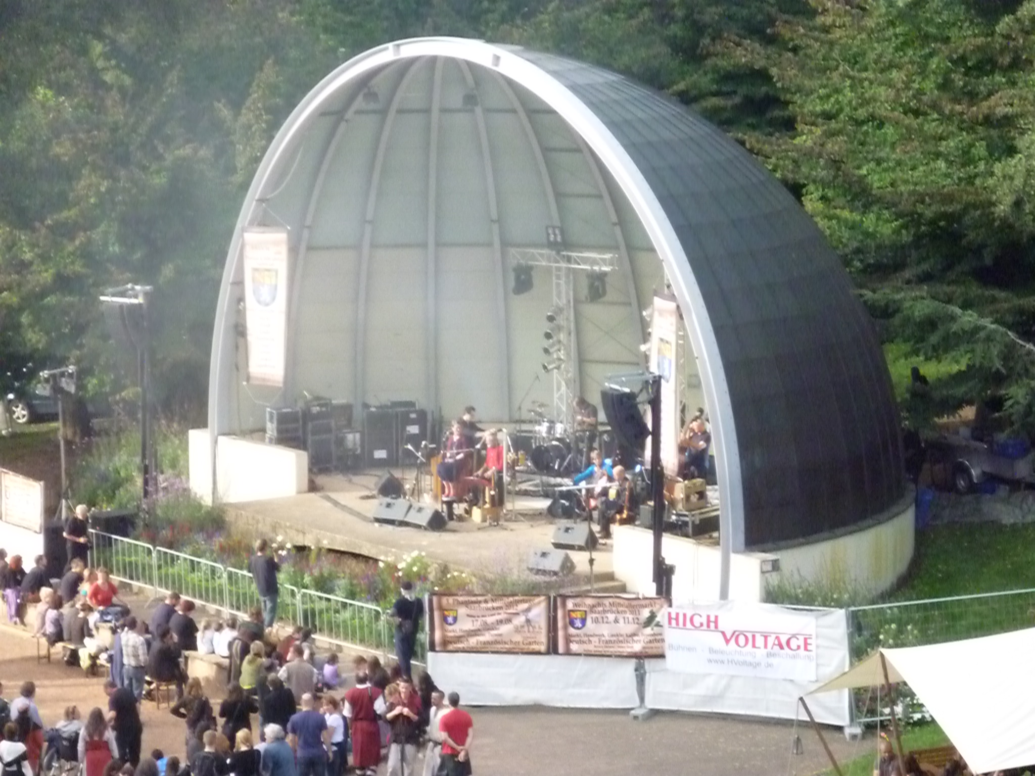 Ougenweide live at the Mittelalter Spectaculum in Saarbrücken